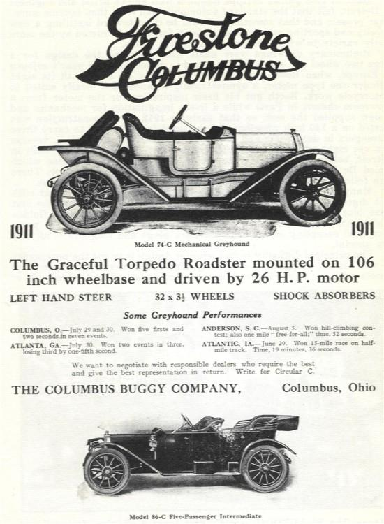 Firestone-Columbus advertisement from 1911